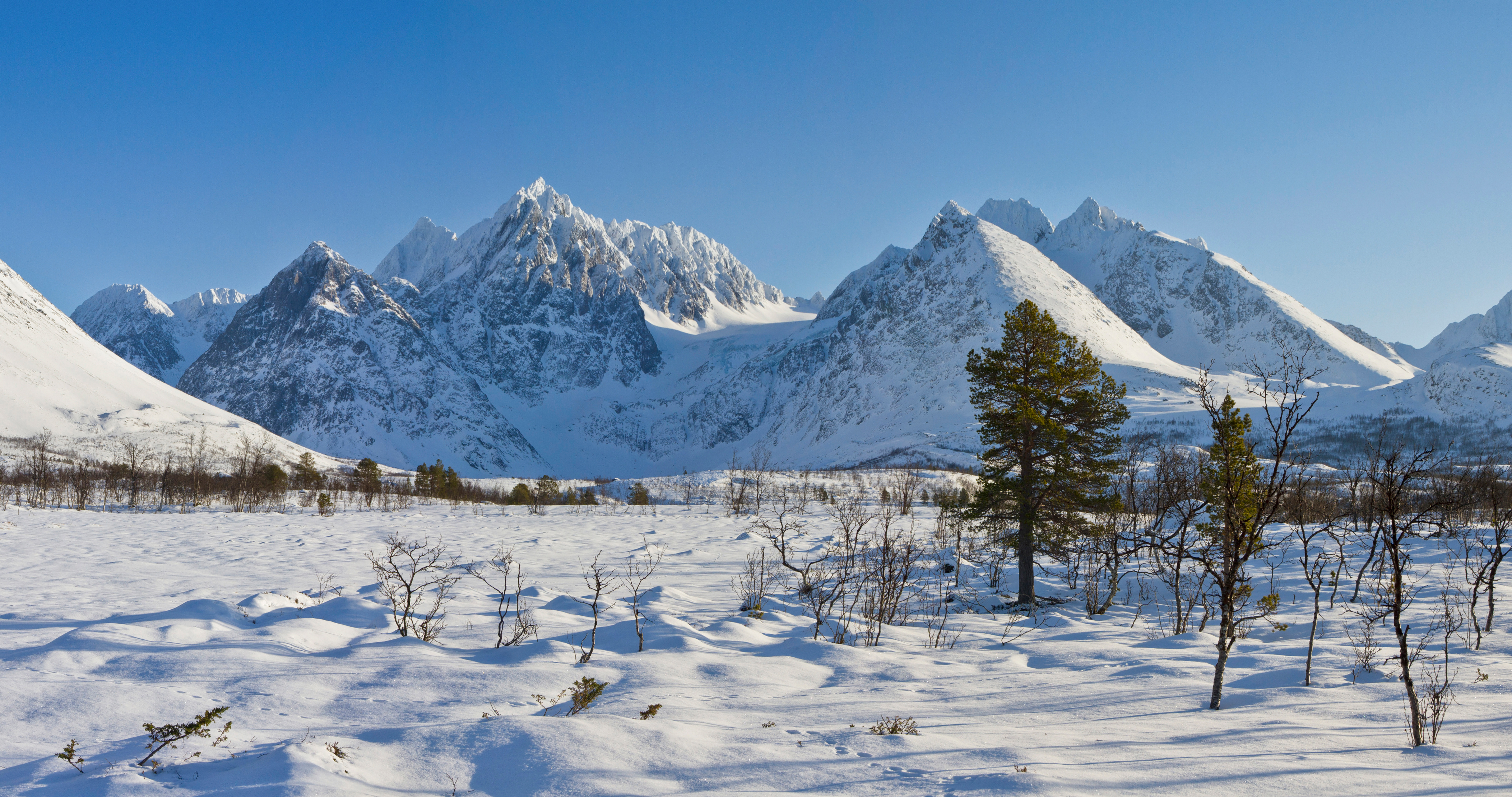 A view to Lenangstindane (Store Lenangstinden, 1,625 m, being the highest peak in the northern Lyngen peninsula) and Jægervasstindane as seen from the northwest from the direction of Sørlenangsbotn in 2012 March.